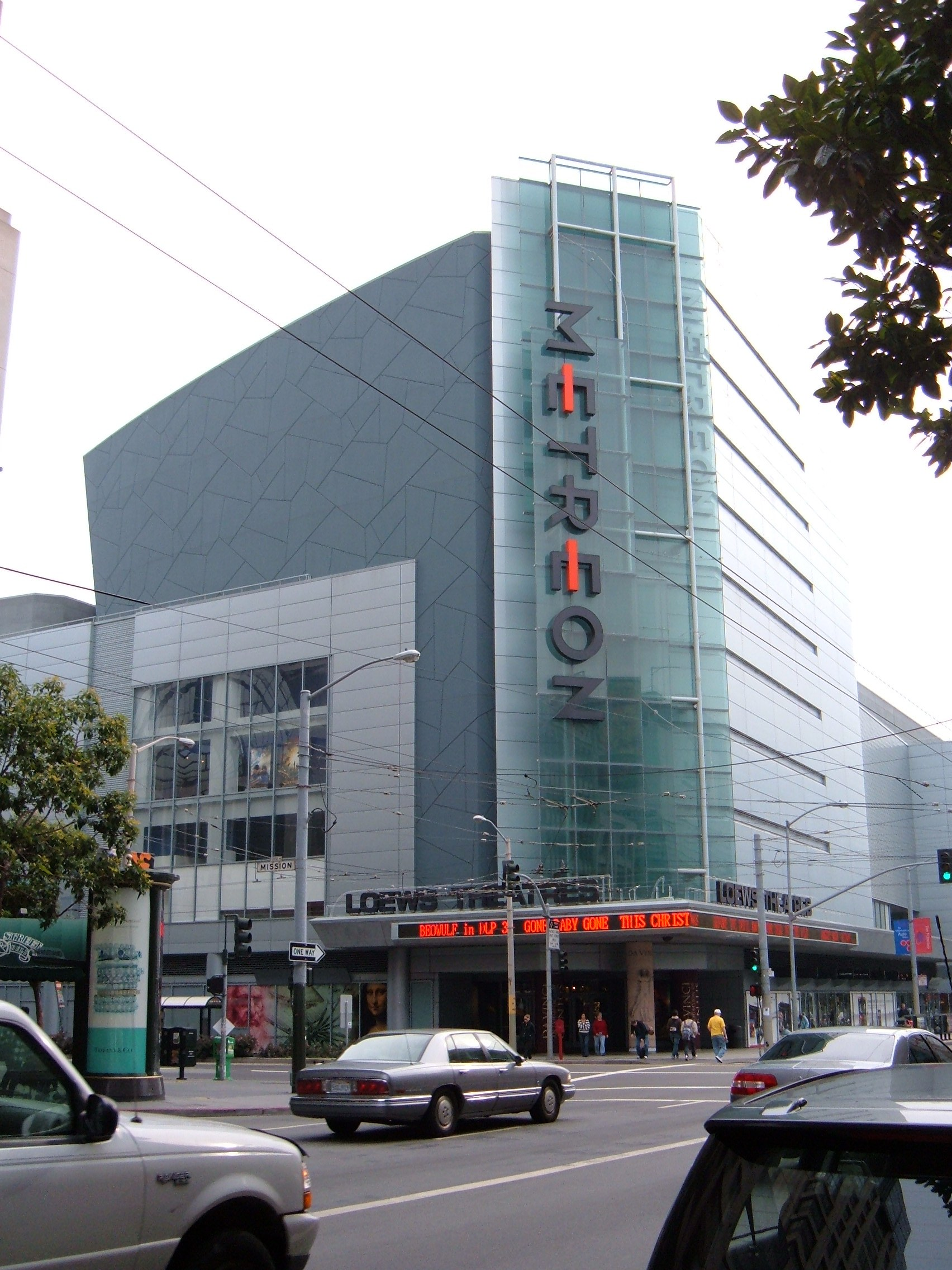 The Metreon in San Francisco.